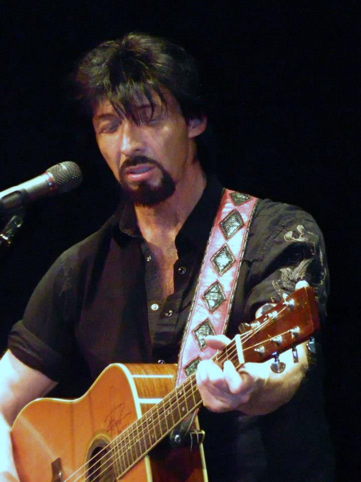 Clinton Gregory 2013 performing live.